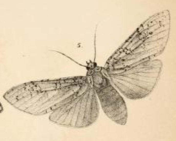 Drawing of Lophocampa luxa